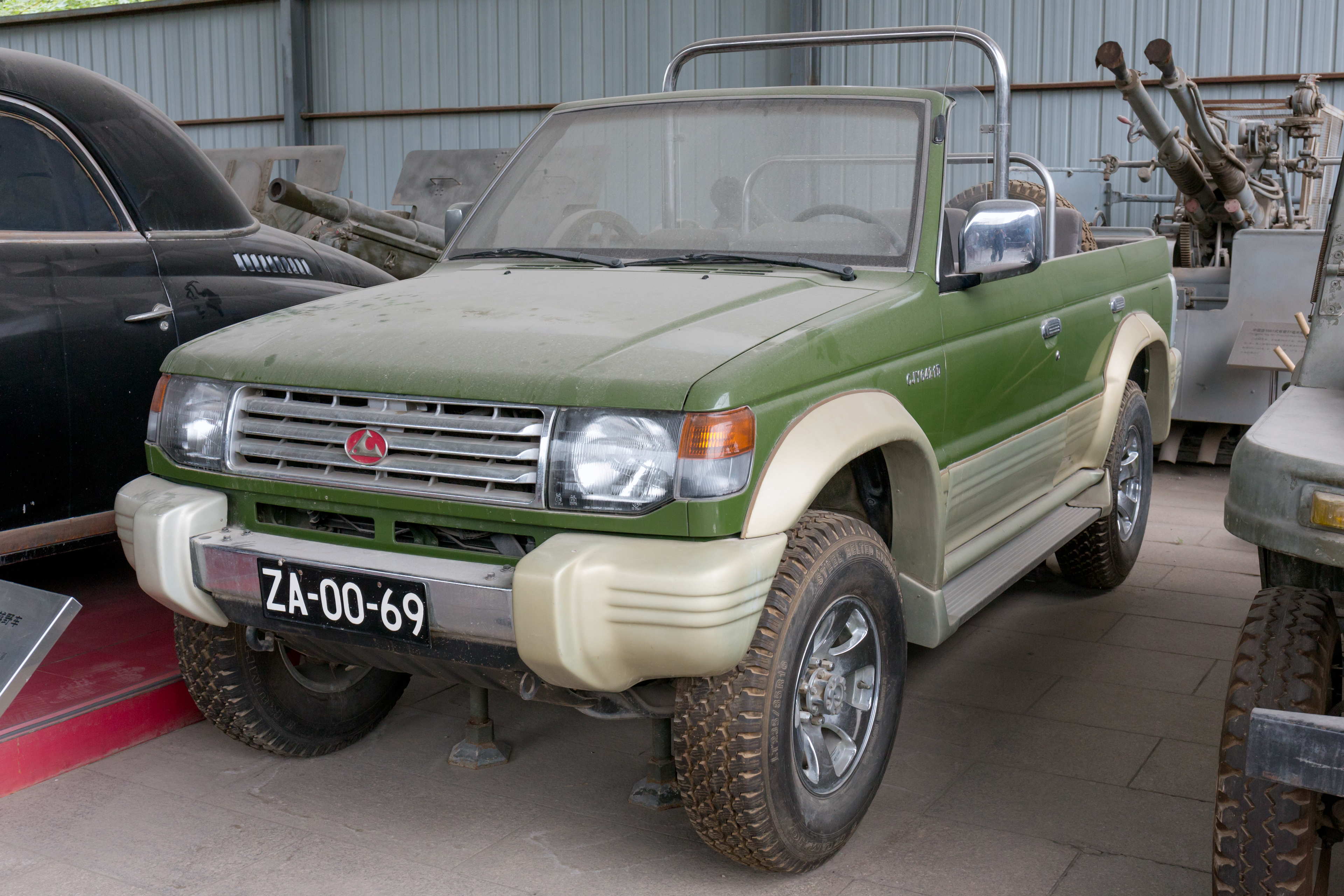 Changfeng Liebao CJY6421D